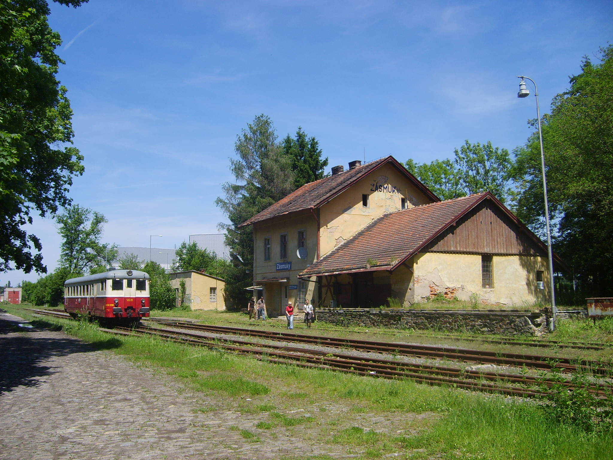 Train station in Zásmuky on Bošice - Bečváry route with a historic railcar of KŽC Doprava.